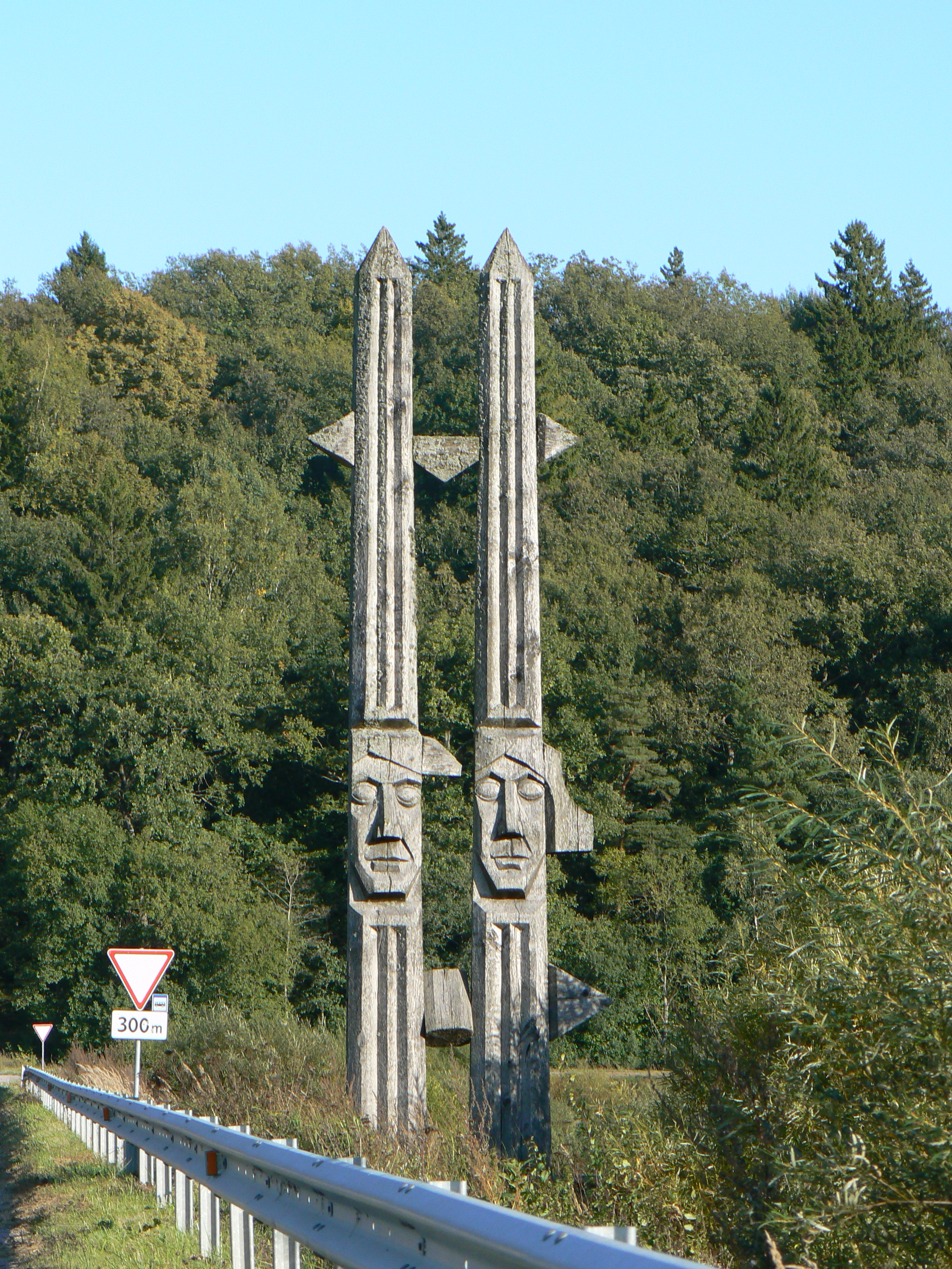 Sculpture near Rauviškiai/bridge/Minija